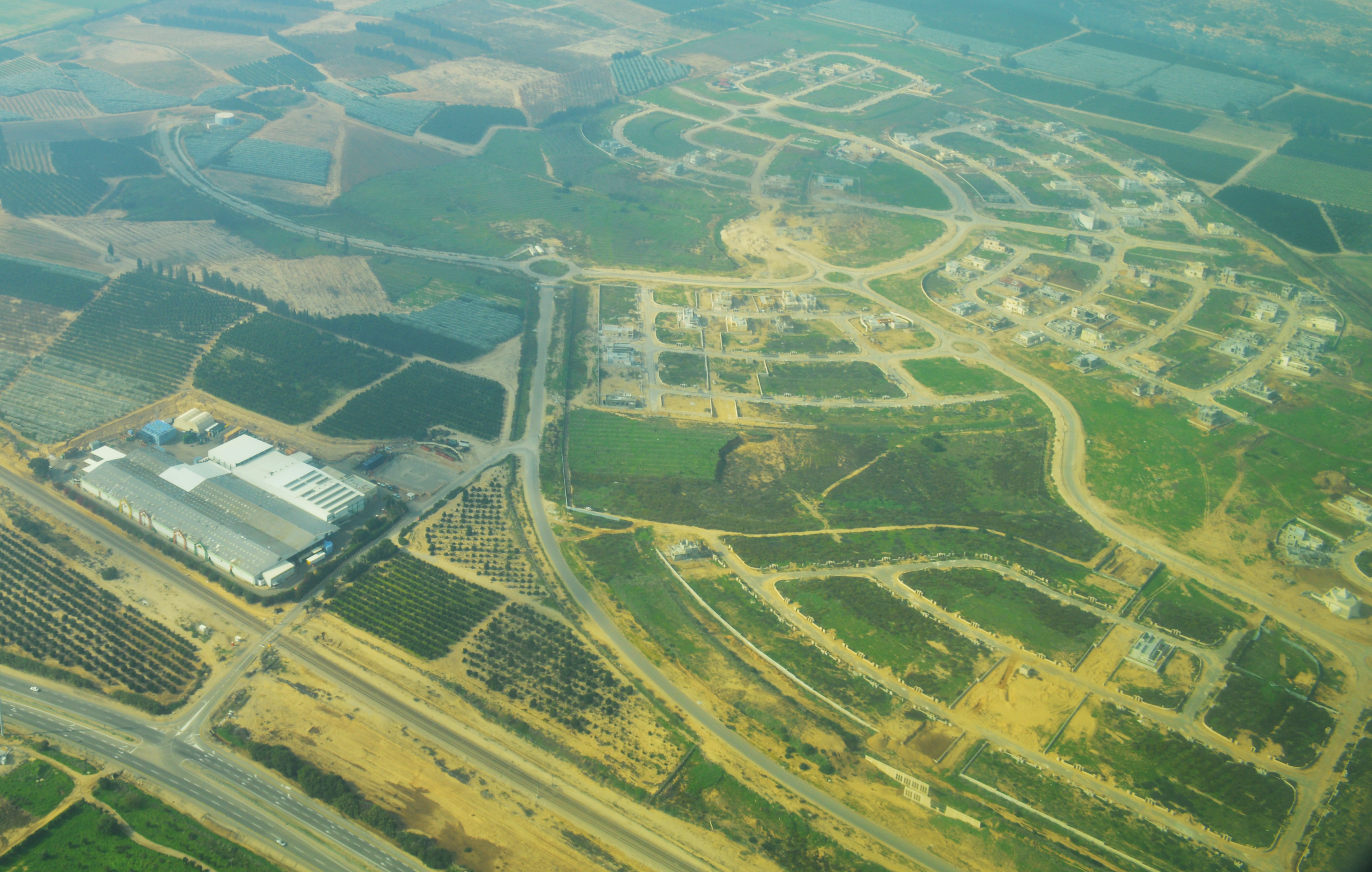 Beer Ganim - Aerial View